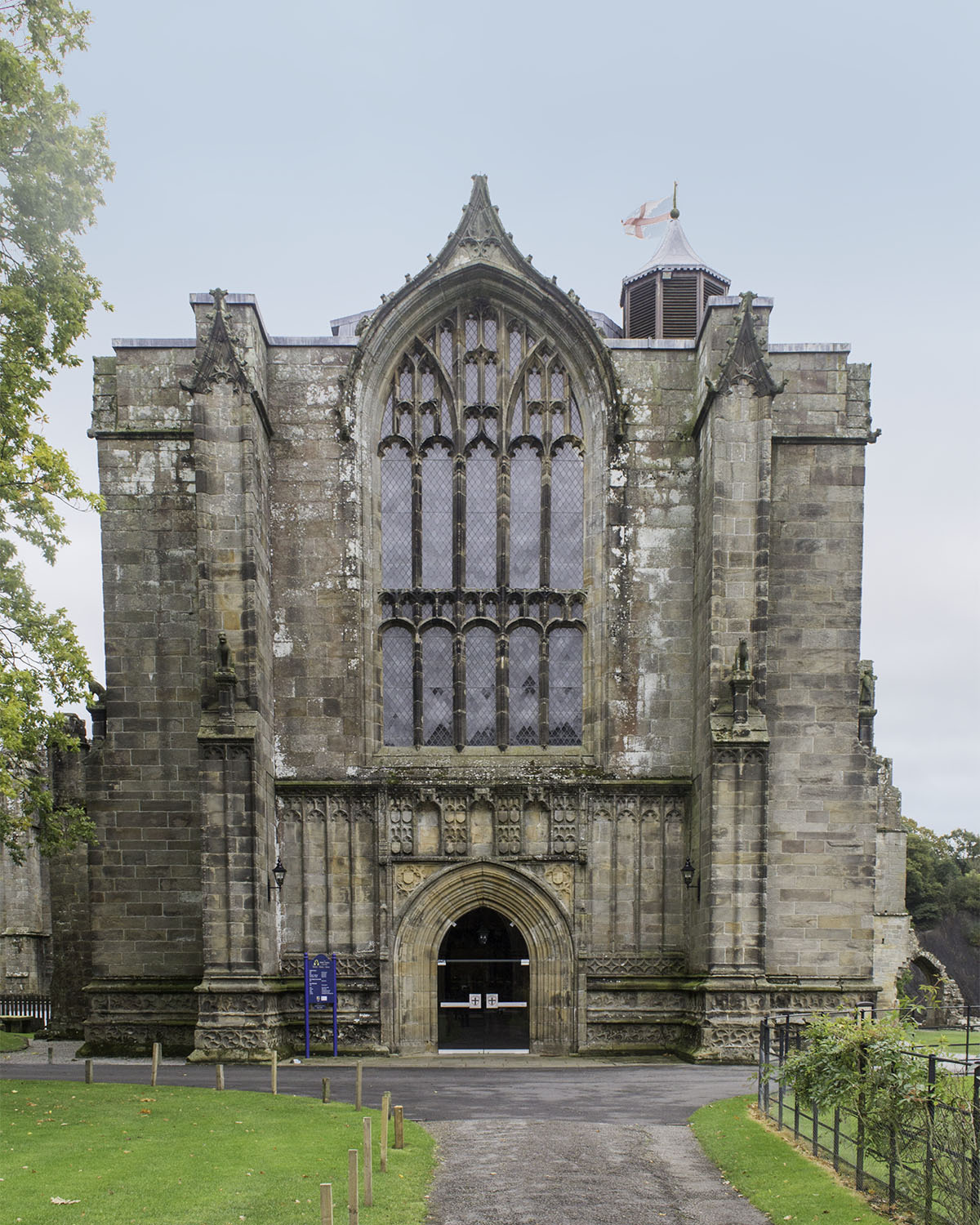 West front of the priory church of St Mary and St Cuthbert, Bolton Abbey, North Yorkshire